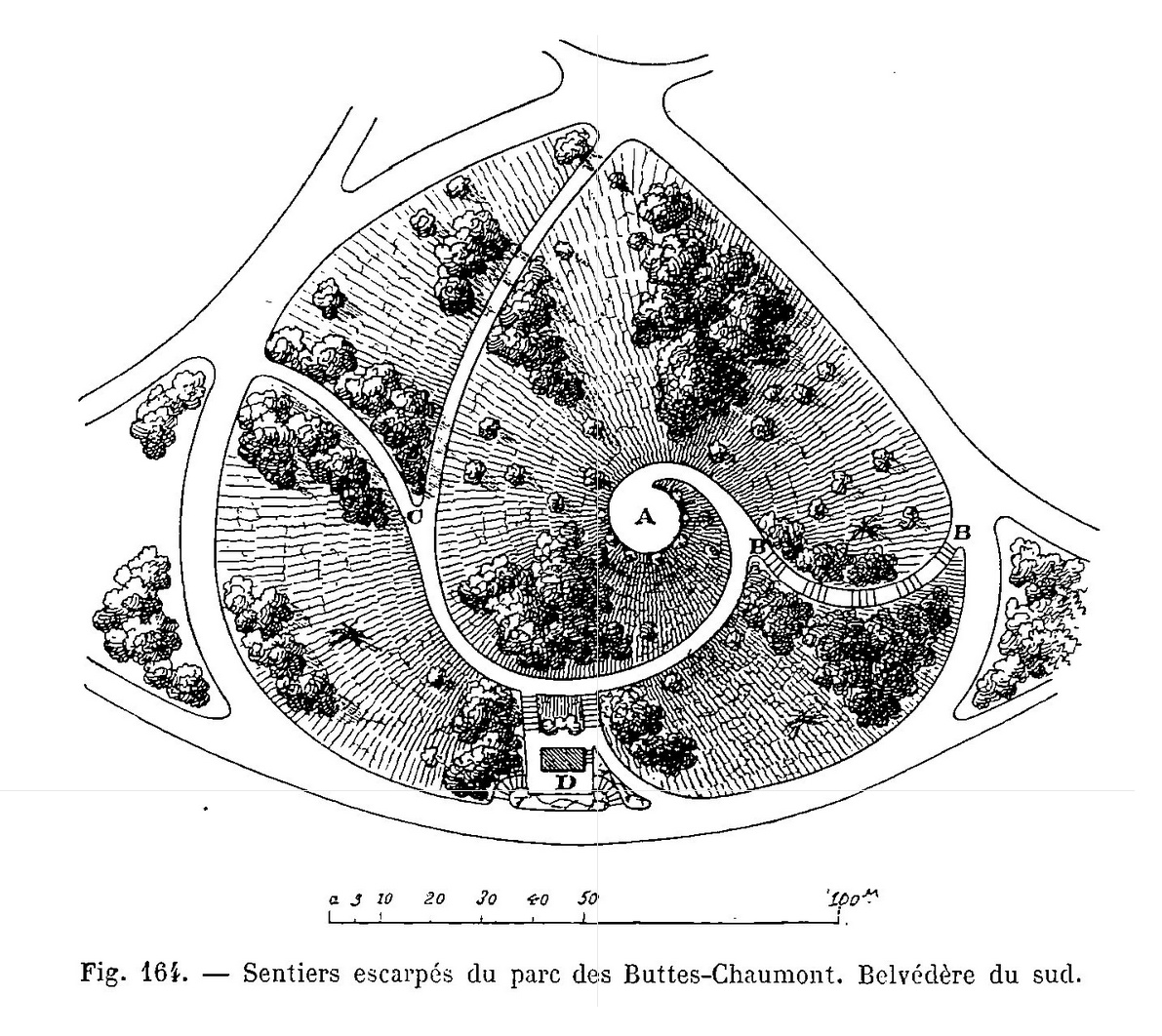 Plan of southern Belvedere in Parc des Buttes-Chaumont, Paris France In: André, Edouard: L'Art des jardins. Paris, 1879. p.386.